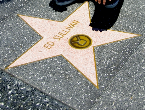 Ed Sullivan, star on Hollywood Walk of Fame.